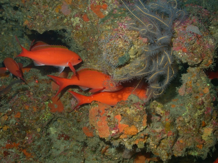 Creole fish (Paranthias furcifer) and crinoids; Gulf of Mexico, West Bank, Flower Garden Banks NMS